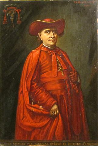 Portrait of Louis-Édouard-François-Désiré Pie